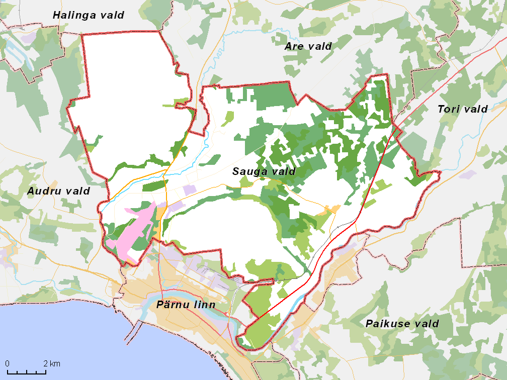 Map of municipality in Estonia